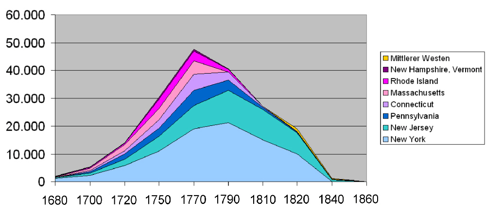 Chart: Numbers of slaves in the USA, Northern States only, 1680 thru 1860; data source: Ira Berlin: Generations of Captivity: A History of African-American Slaves, Cambridge, London: The Belknap Press of Harvard University Press, 2003, ISBN 0-674-01061-2